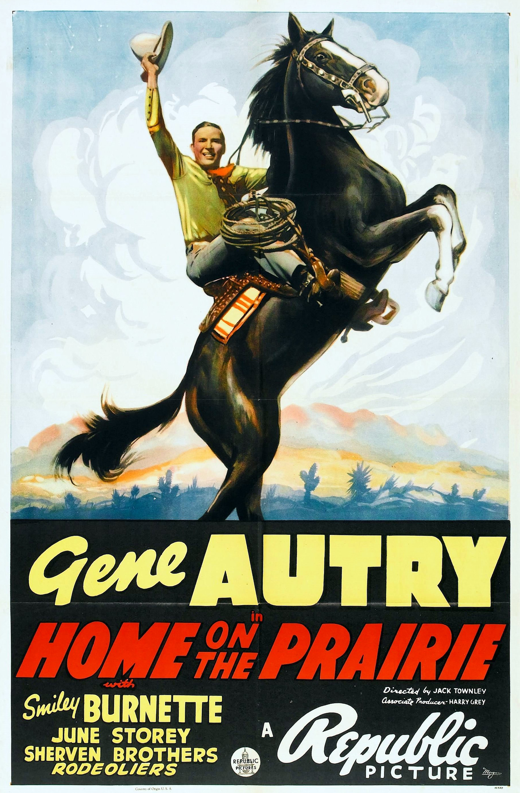 Movie poster of Home on the Prairie (1939) starring Gene Autry